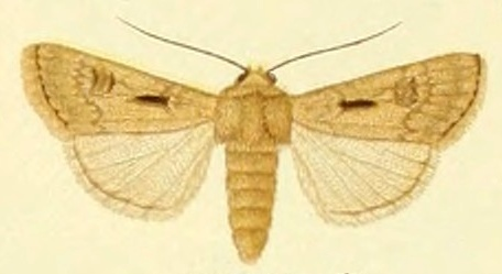 Image from Plate 7 of Die Gross-Schmetterlinge der Erde (The Macrolepidoptera of the World) Vol. 3